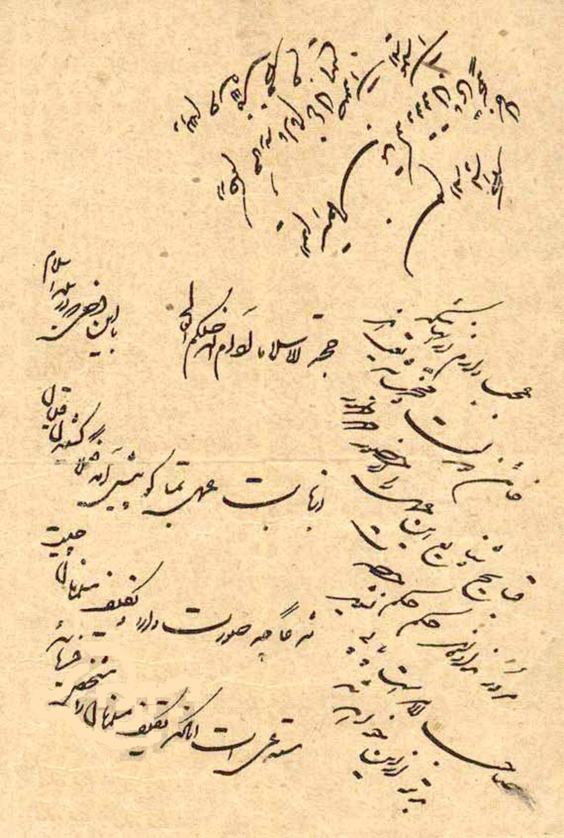 Tobacco Protest Fatwa issued by Mirza Mohammed Hassan Husseini Shirazi